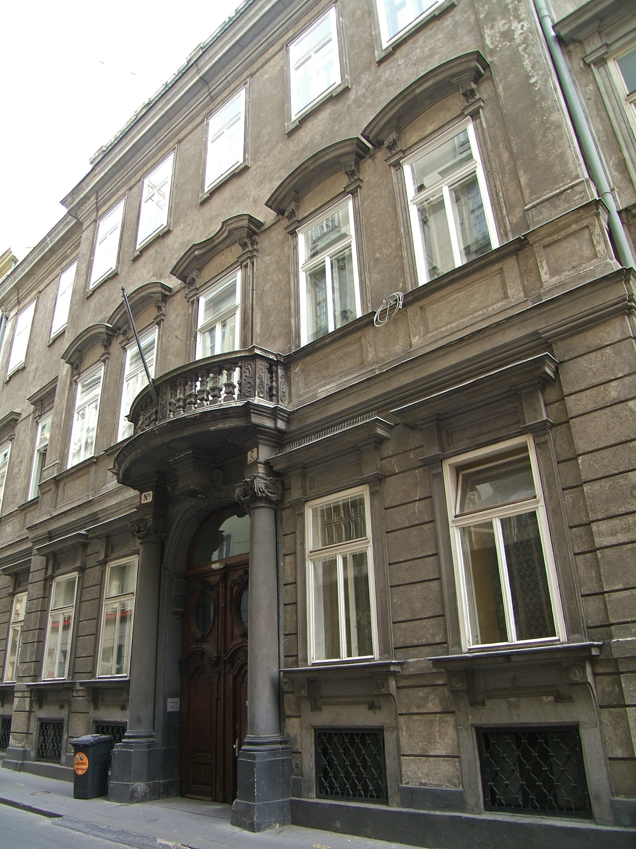 Palais Corbelli-Schöller in Vienna 1st district, Johannesgasse 7